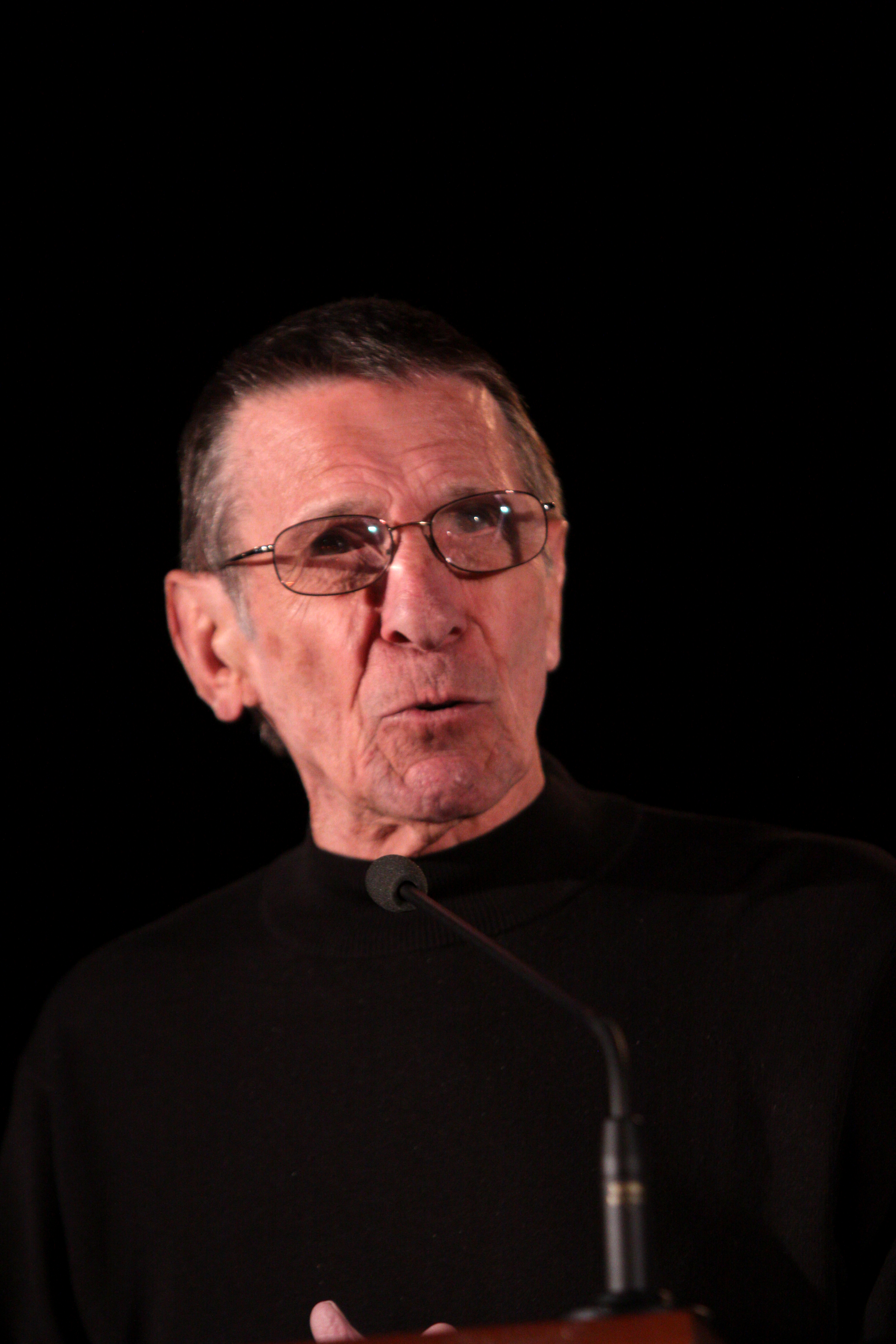 Leonard Nimoy at the Phoenix Comicon in Phoenix, Arizona.